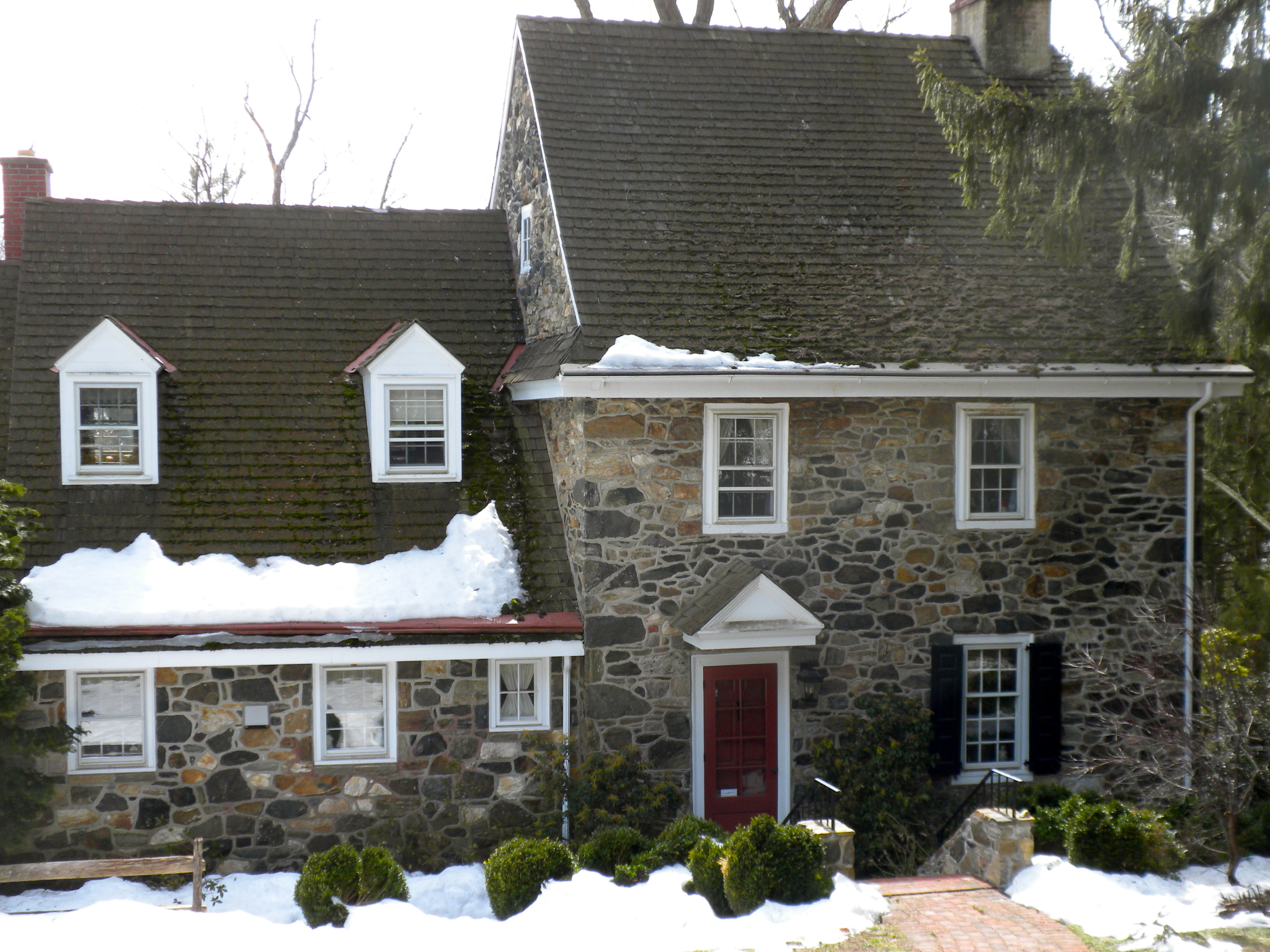 William Harvey House on NRHP since May 27, 1971. Northwest of Chadds Ford on Brinton's Bridge Road off U.S. Route 1 but in Pennsbury Township, Chester County. Near Brinton-King Building